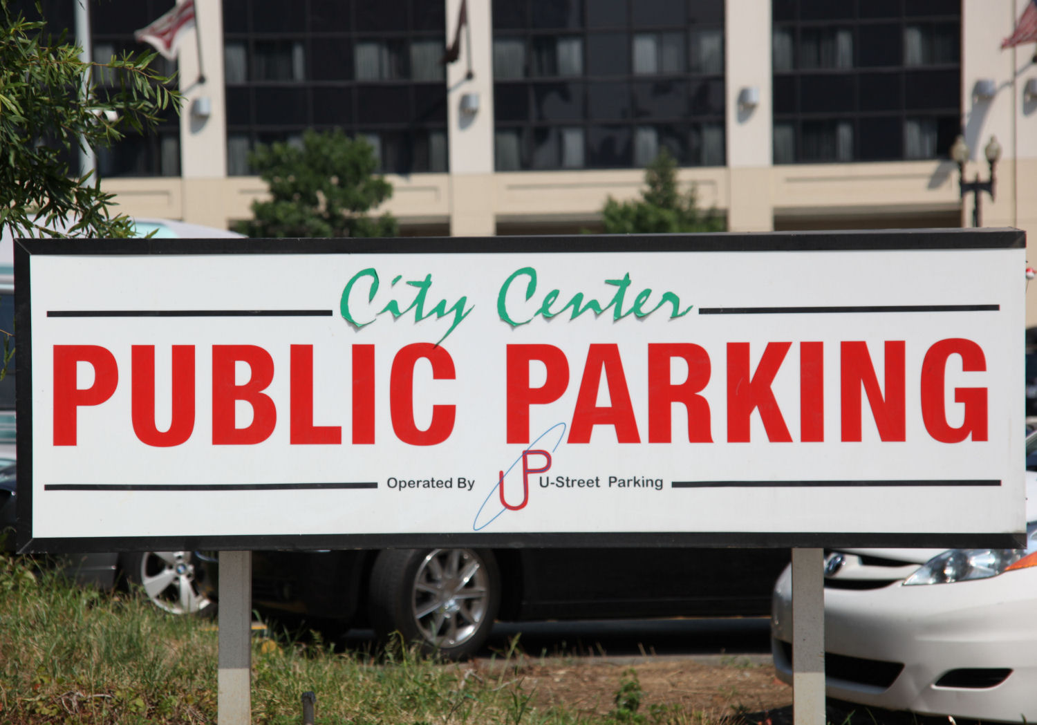 Existing parking lot at the site of CityCenterDC in August 2011. CityCenterDC is a $1 billion mixed-use development encompassing four city blocks in Washington, D.C., in the United States. The development consists of a condominium building, hotel, two office buildings, and public park, and began construction in April 2011 on the site of the former Washington Convention Center. The convention center was imploded in 2003, and temporary city-owned parking lots built on the site. A portion of the parking lot remained as of August 2011, while the first parts of the development are constructed.